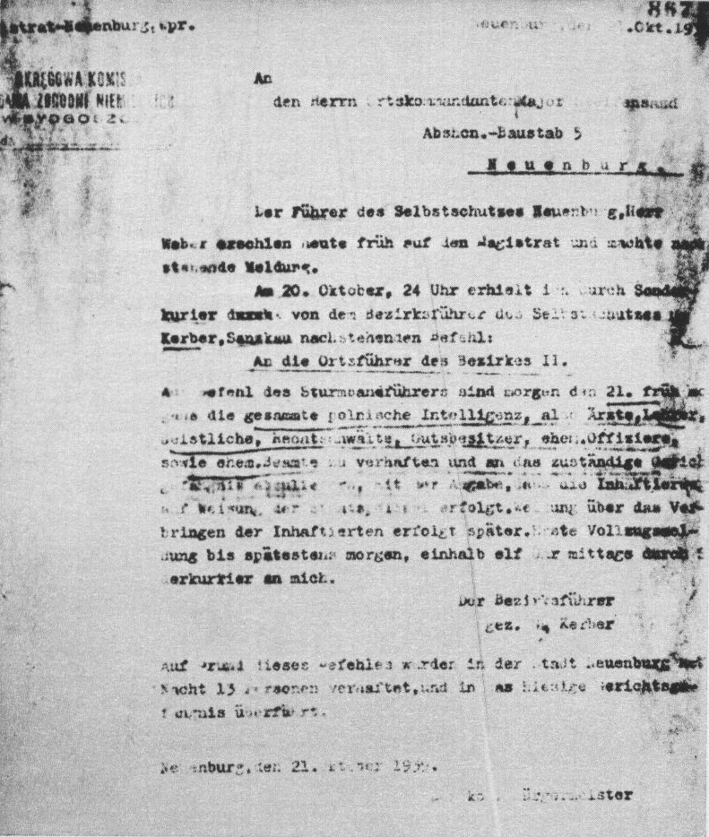 Poland under the German occupation. Arrest warrant for members of Polish intelligentsia from city Nowe in Świecie county, issued by G. Kerber – commandant of so-called Volksdeutscher Selbstschutz in Świecie county (Bezirksführer).